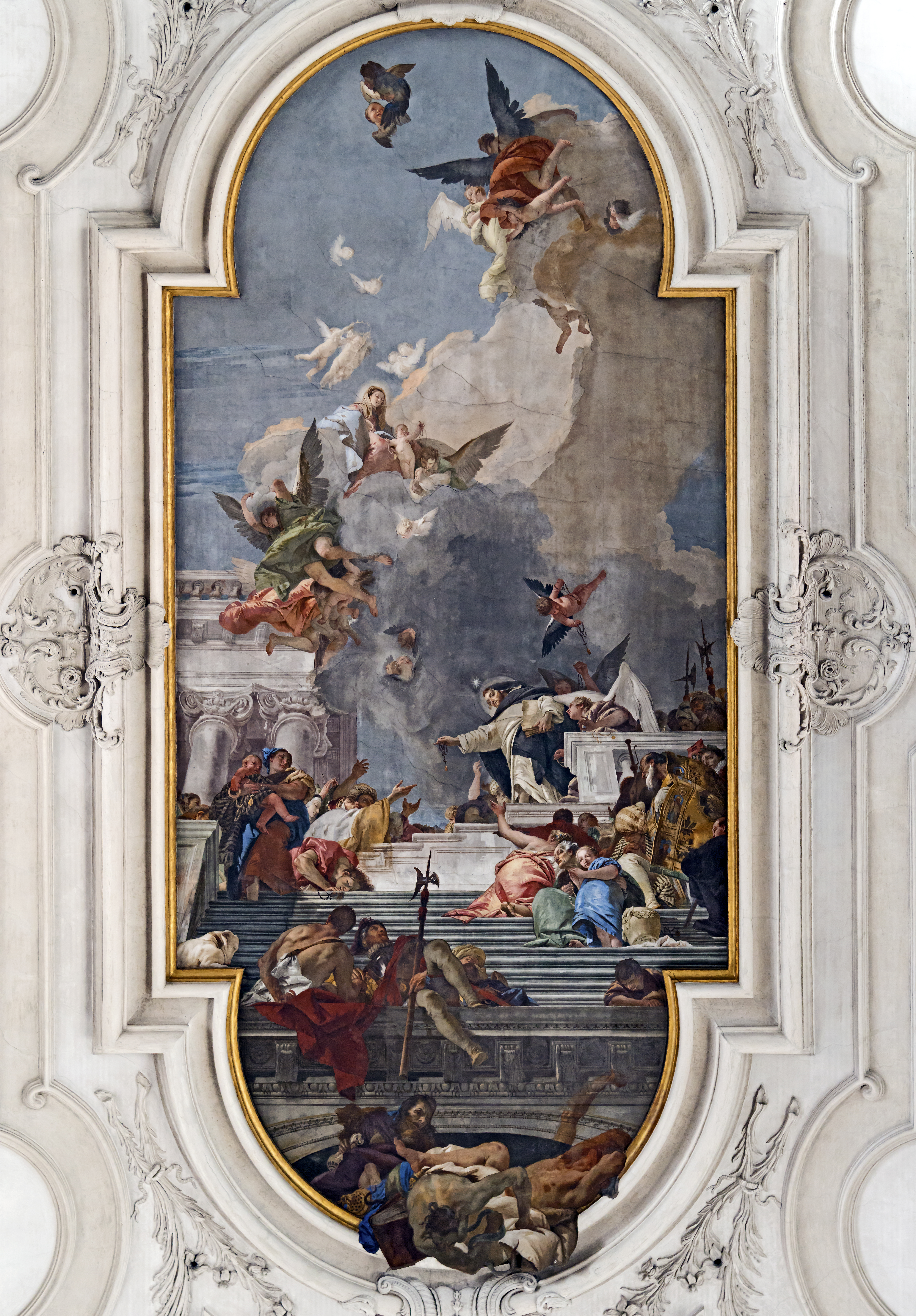 Chuch of Santa Maria del Rosario o dei Gesuati. "The Institution of the Rosary", nave ceiling by Giovanni Battista Tiepolo. Painted between 1737 and 1739. Height: 1 200 cm; width: 450 cm.